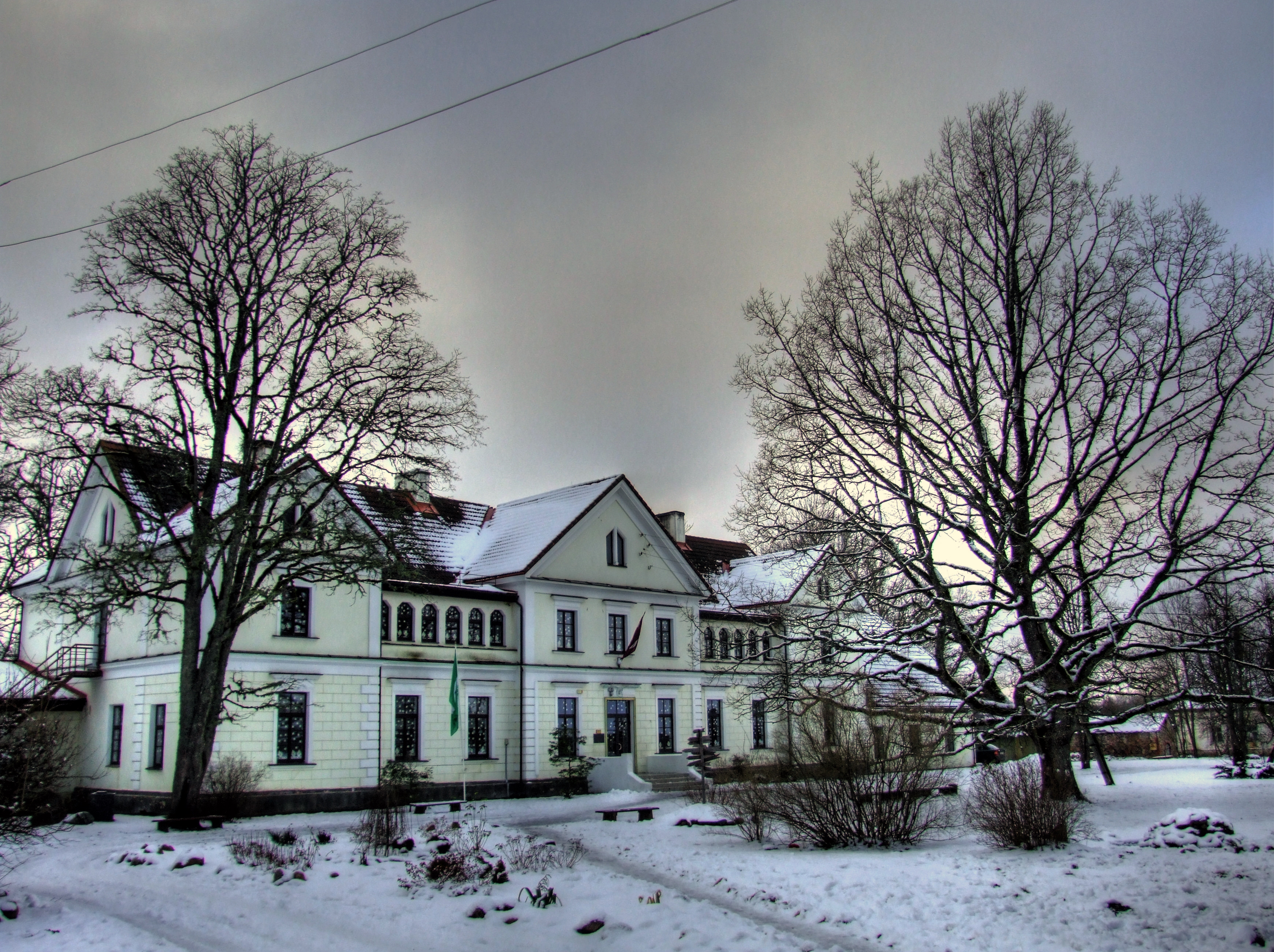 Zante Manor (incorrectly identified as "Zentene manor" by author)